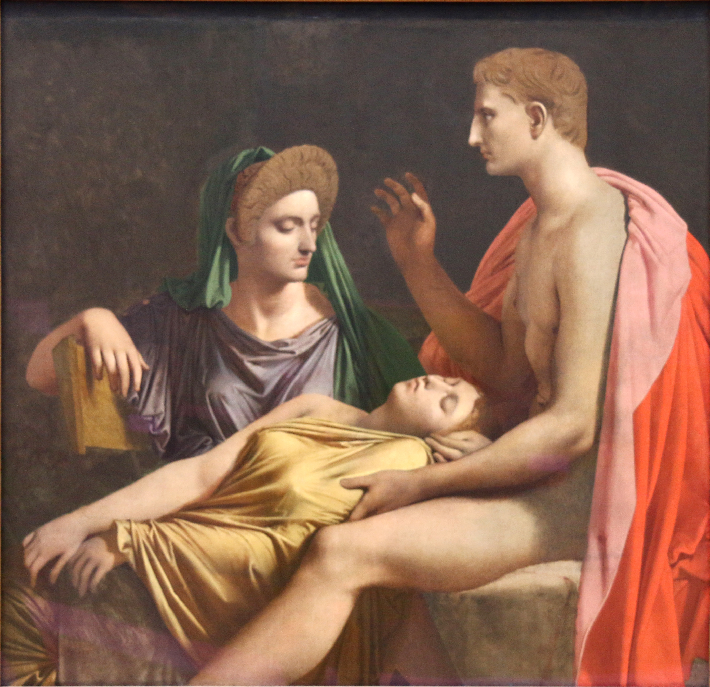 The painting depicts (from right to left) the Roman Emperor Augustus, his sister Octavia the Younger, and his wife Livia listening to Virgil reading Book VI of the Aeneid. According to Aelius Donatus's biography of Virgil, when the poet read the lines about Octavia's son Marcellus who had died unexpectedly, Octavia fainted.